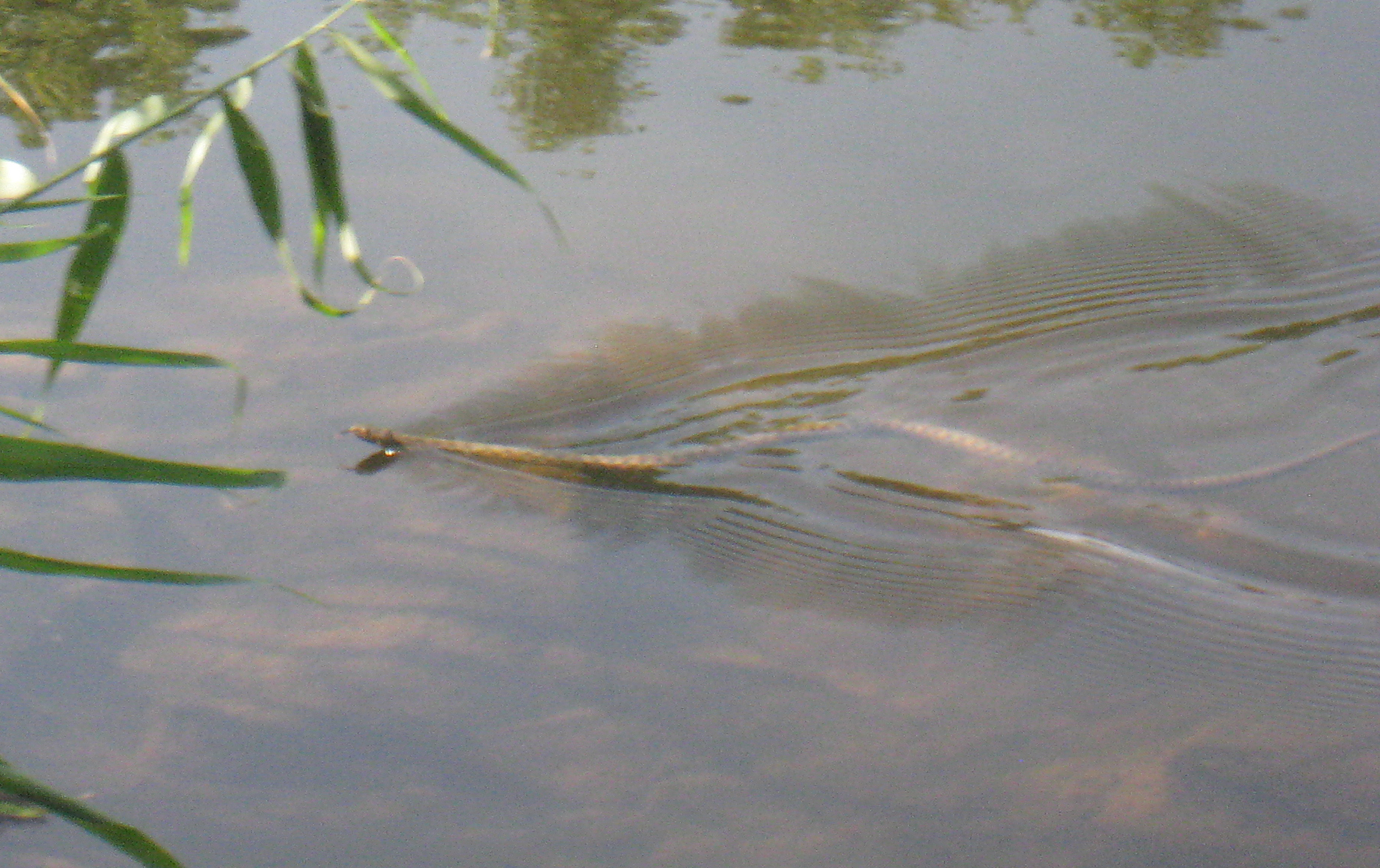 swimming dice snake